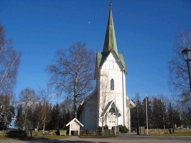 Trømborg church.